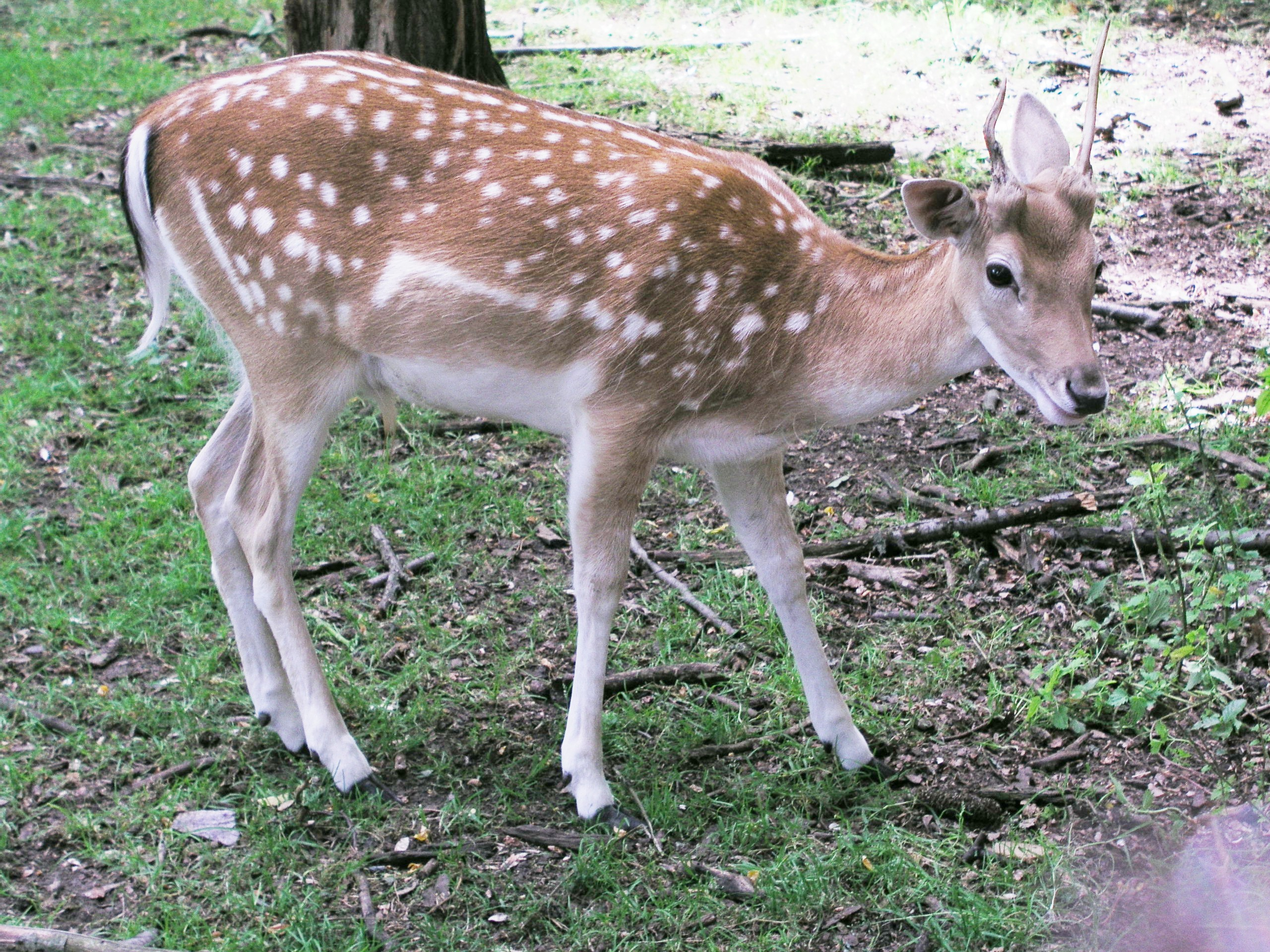 Fallow Deer (Dama dama)